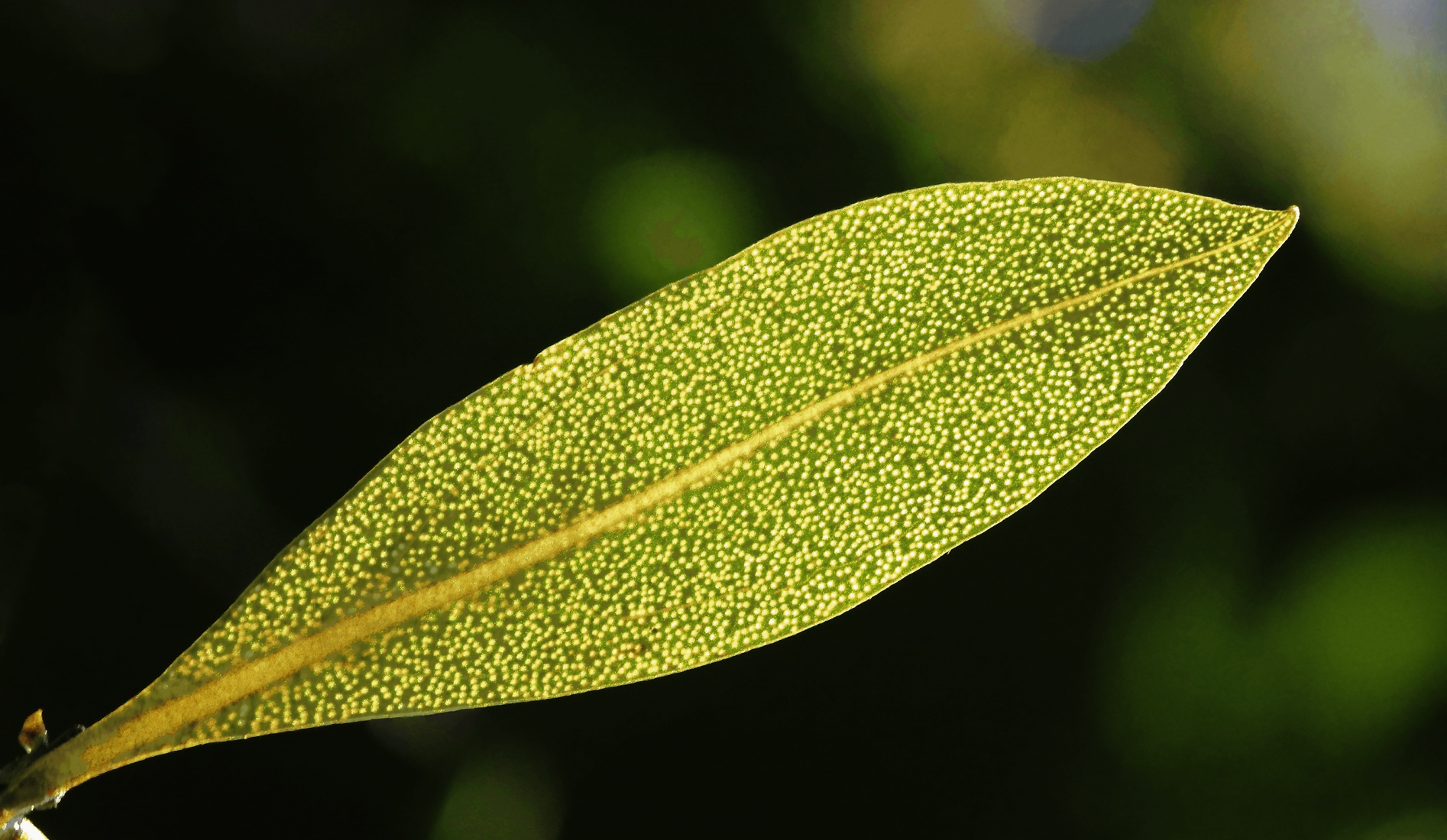 Leaf of Ngaio tree (Myoporum laetum), backlit by the evening sun. The leaf spots contain ngaione, a liver toxin fatal to livestock. Photo taken in Auckland, New Zealand.